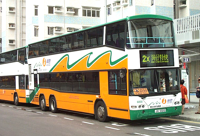 Bus Company: New World First Bus, Hong Kong Bus Model: Neoplan Centroliner 12 metre Bus Fleet Number: 6008 This is the standard wavy livery of New World First Bus. Photographer: Alan Mak. Venue in the photograph: Aldrich Bay, Shau Kei Wan, Hong Kong